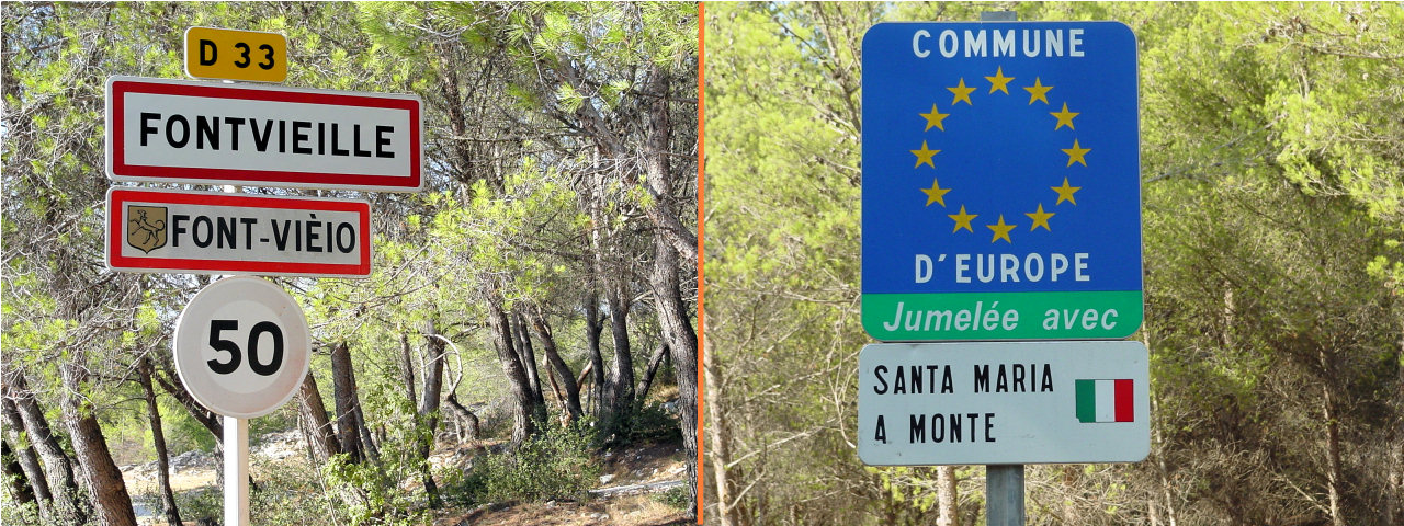 Road signs at Fontvieille indicating the twinning with Santa Maria a Monte